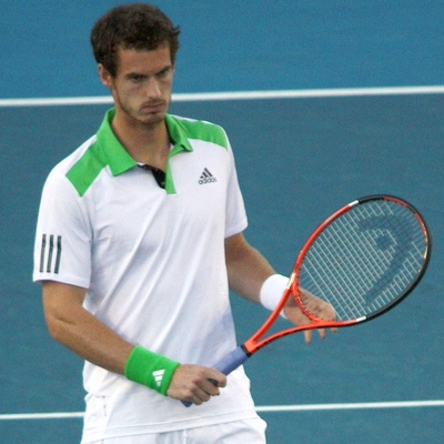 Andy Murray at the 2011 Australian Open